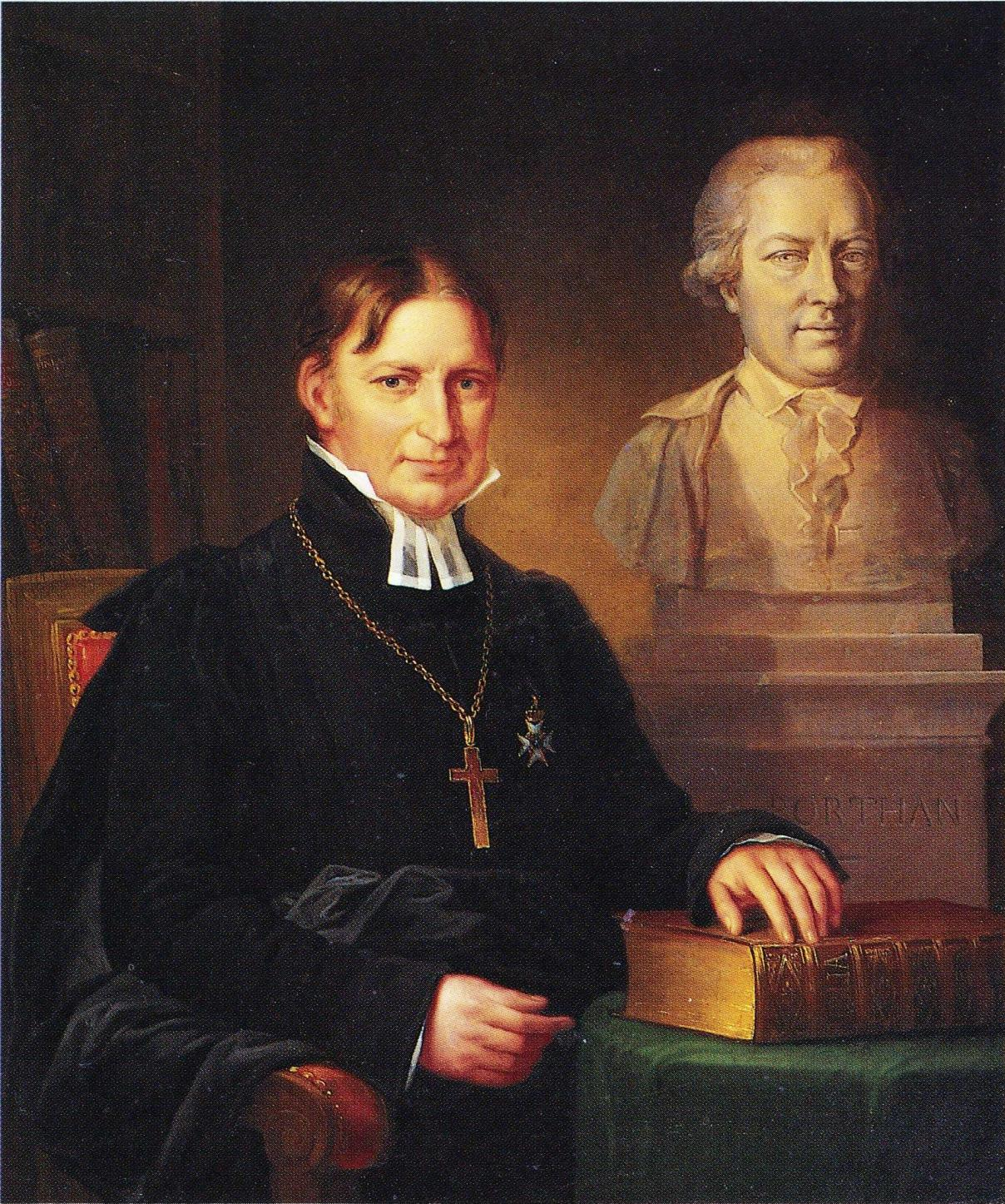 Portrait of Finnish-born poet and Swedish bishop Frans Mikael Franzén (1772–1847), his hand resting on the Bible. On the background there is a gypsum bust of his tutor, Henrik Gabriel Porthan. The portrait belonged to the Osthrobothnian student delegation of Helsinki University, until it was destroyed in a fire on November 29, 2008.